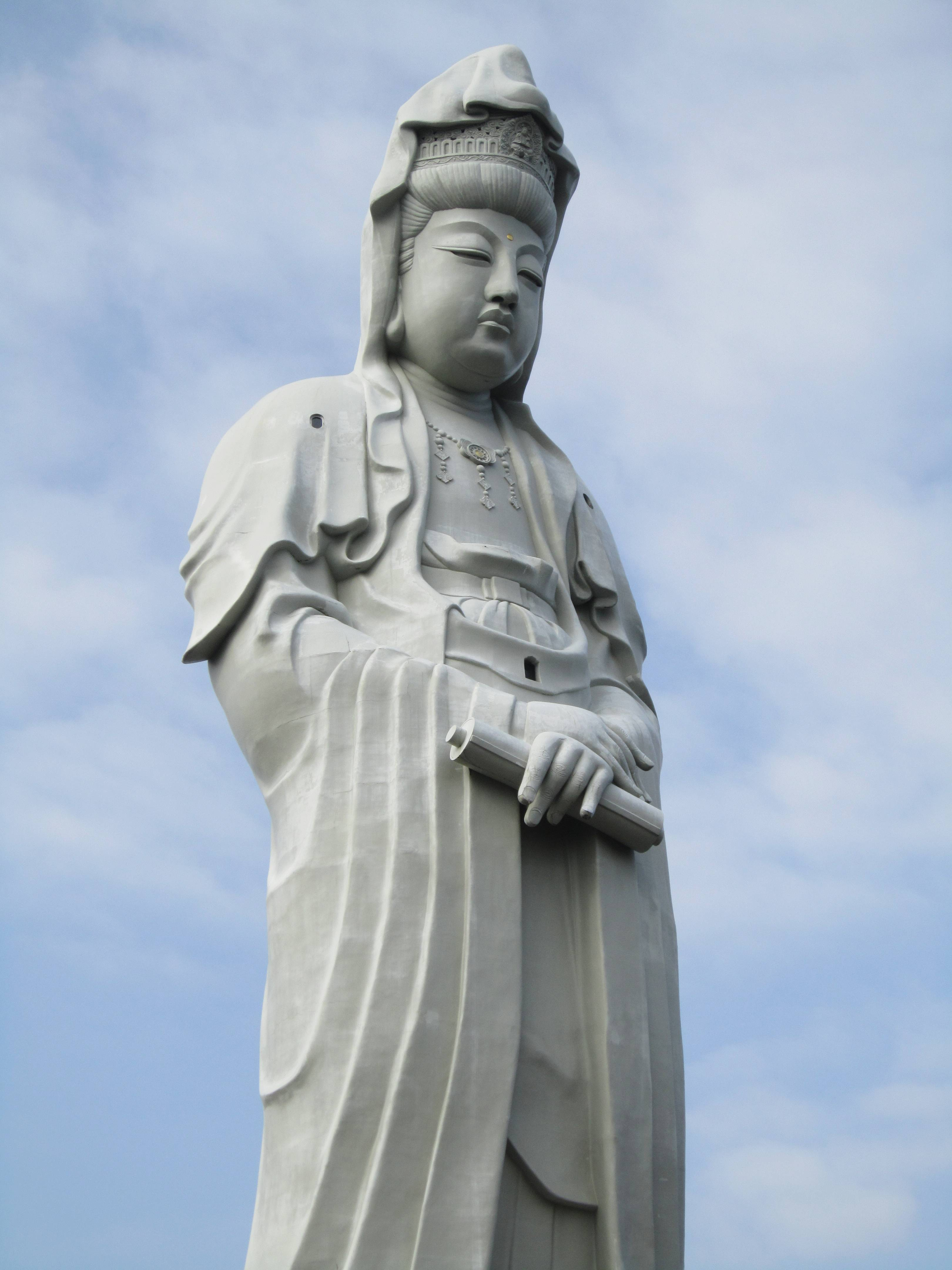 Takasaki Kannon.